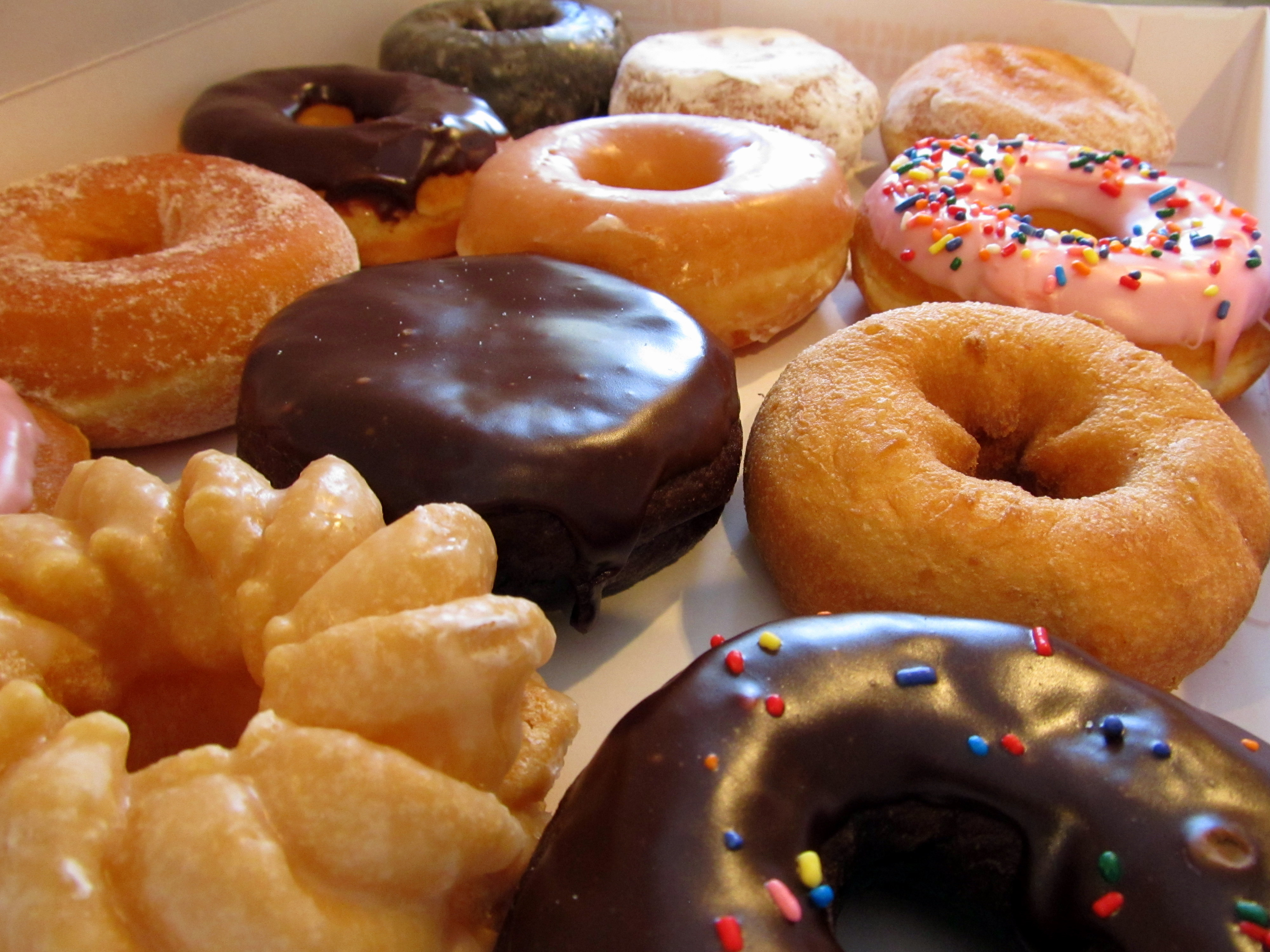 Doughnuts :)